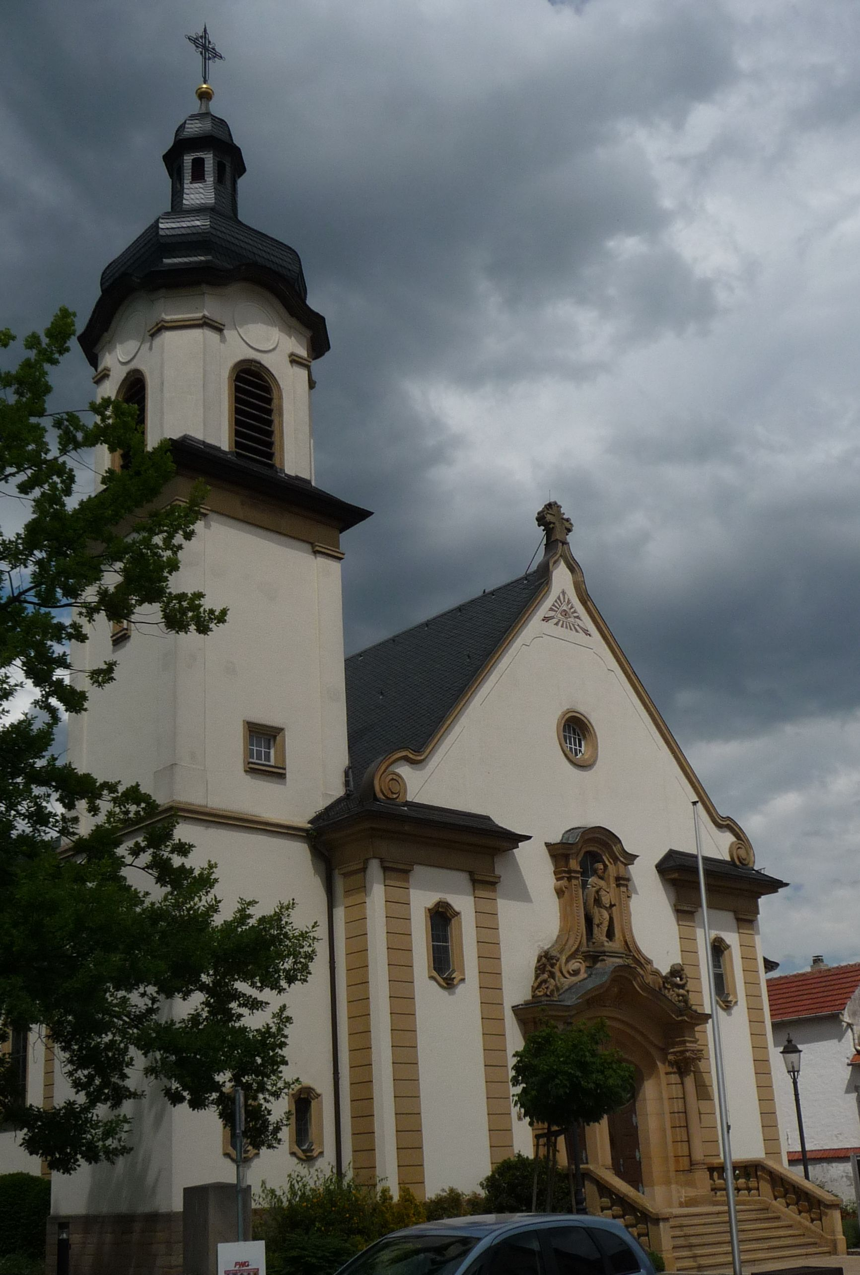 Church in Beindersheim, Germany